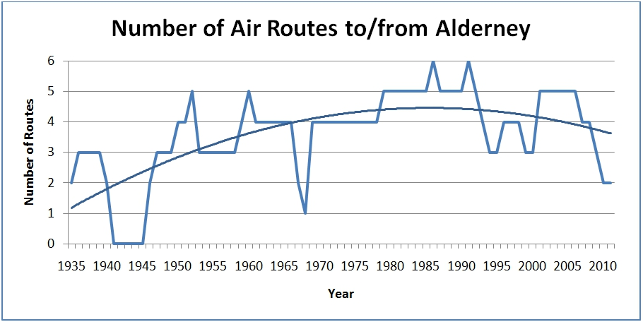 Number of air routes to and from Alderney since 1935. As plotted in Microsoft Excel.